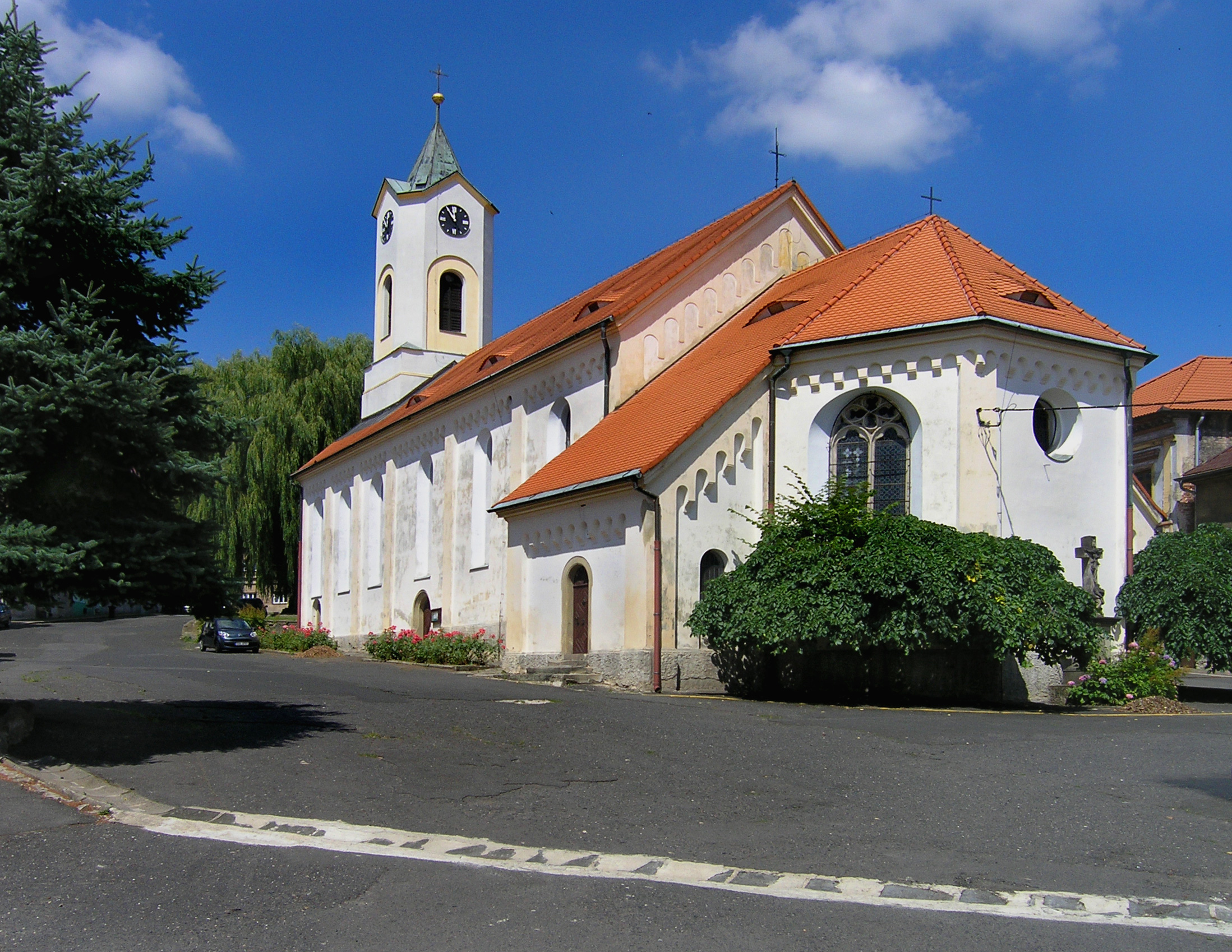 Catholic church in Tržní square in Hrob town, Czech Republic